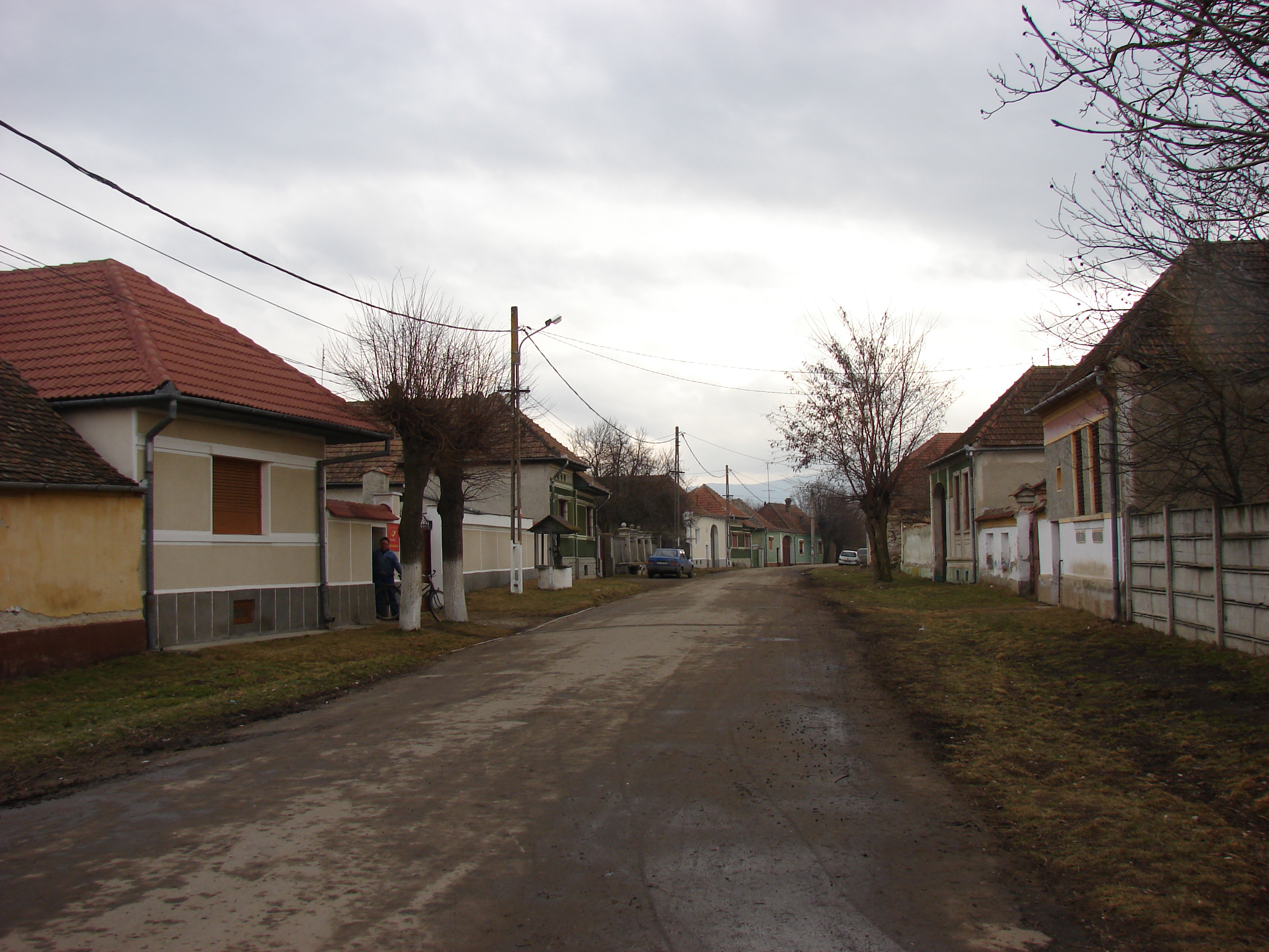 Street in Vad, Braşov County, Romania